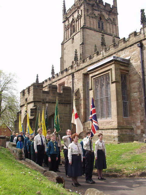 St. George's Day parade, 2002 Scouts parade outside St. John's church, prior to the annual St. George's Day church service.